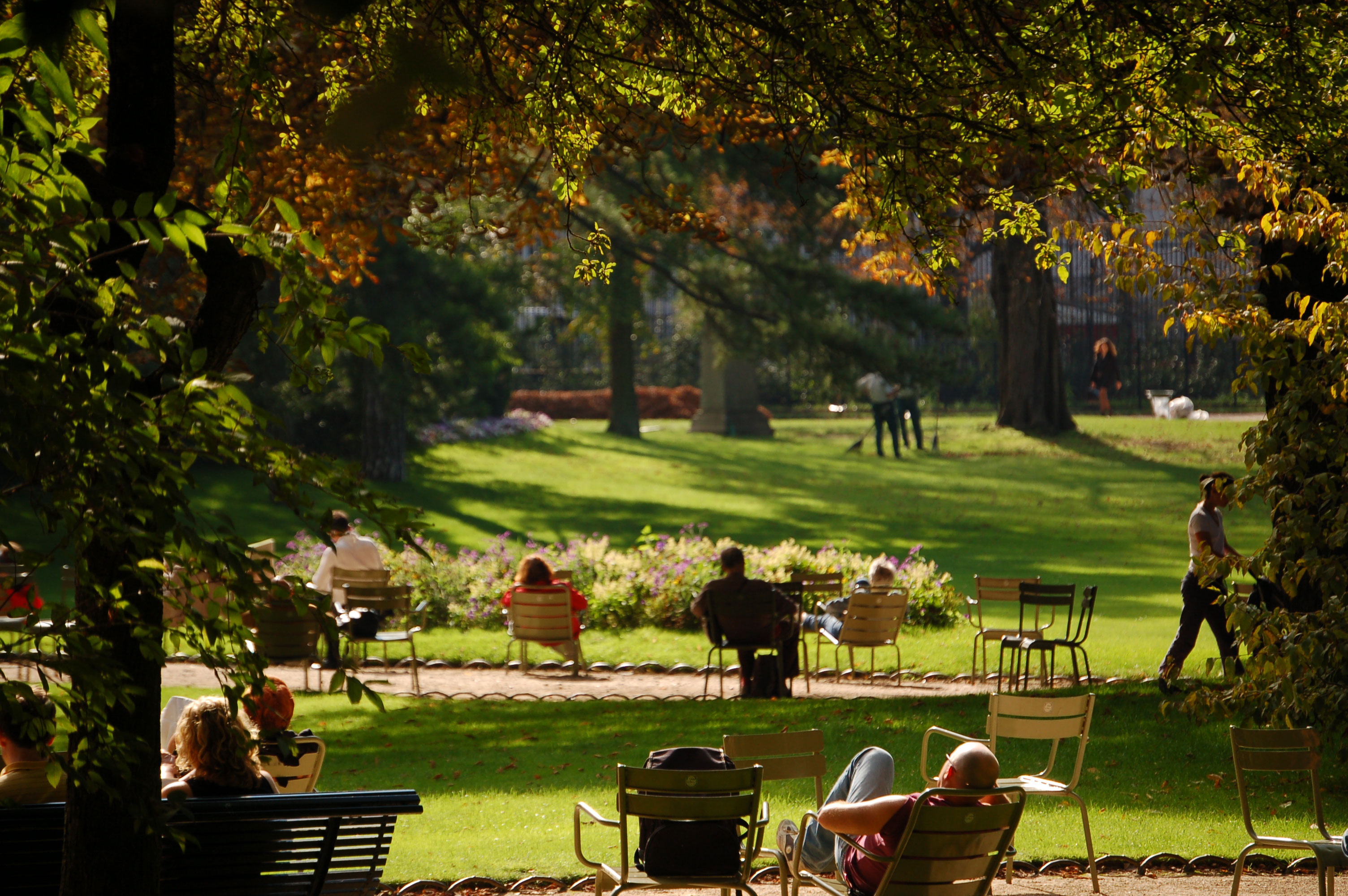 People relaxing in the Jardin du Luxembourg, Paris, France.